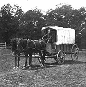 Image of an ambulance wagon, photographed on July 22, 1861, the day after the First Battle of Bull Run.